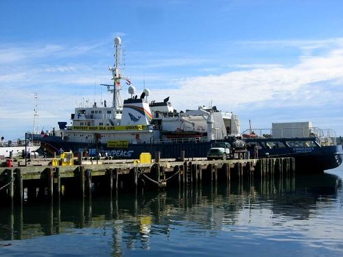 Greenpeace ship Esperanza at Museum Wharf in Halifax, Nova Scotia, Canada, July 2005.